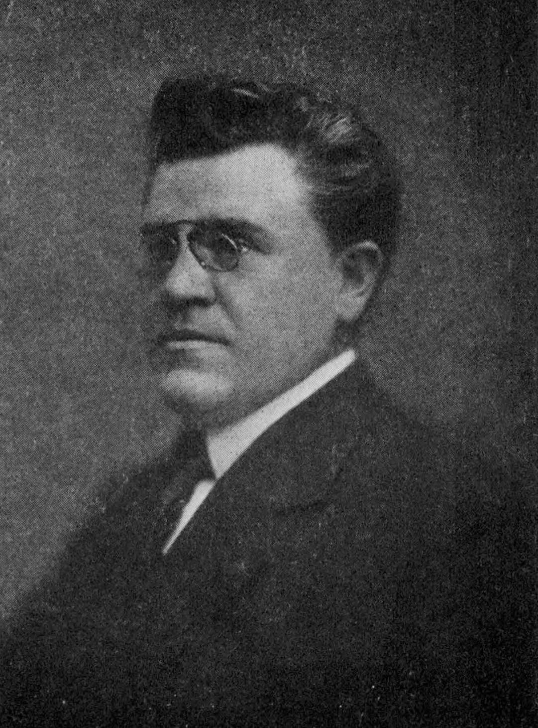 Russian actor Ivan Mikhailovich Moskvin